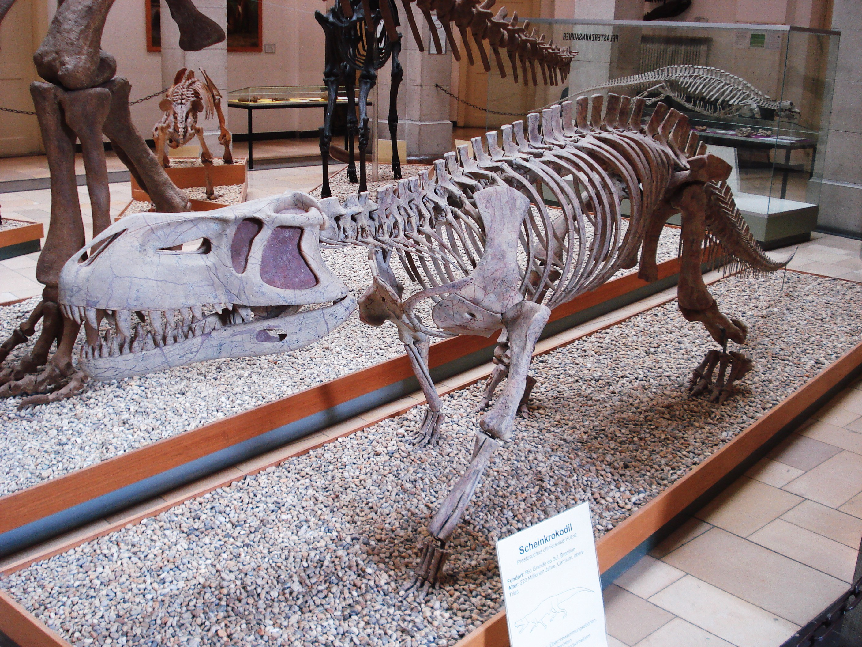 fossil of prestosuchus chiniquensis